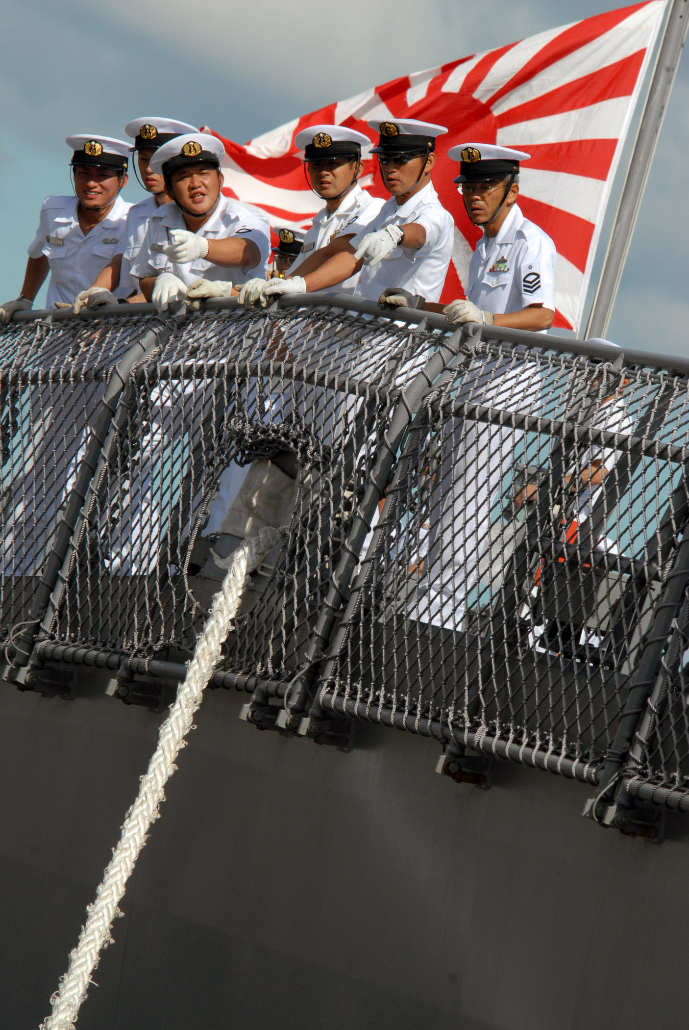 Sailors aboard Japanese destroyer JS KONGO (DDG-173) watch pierside line handlers as the ship moors pierside Naval Station Pearl Harbor. Kongo is the first Japanese ship with the capability to detect, track and intercept short- to medium-range ballistic missiles. Later this year, Kongo is scheduled to conduct a flight test designated Japan Flight Test Mission-1, at Pacific Missile Range Facility, Hawaii. U.S. Navy photo by Mass Communication Specialist 1st Class James E. Foehl (RELEASED)